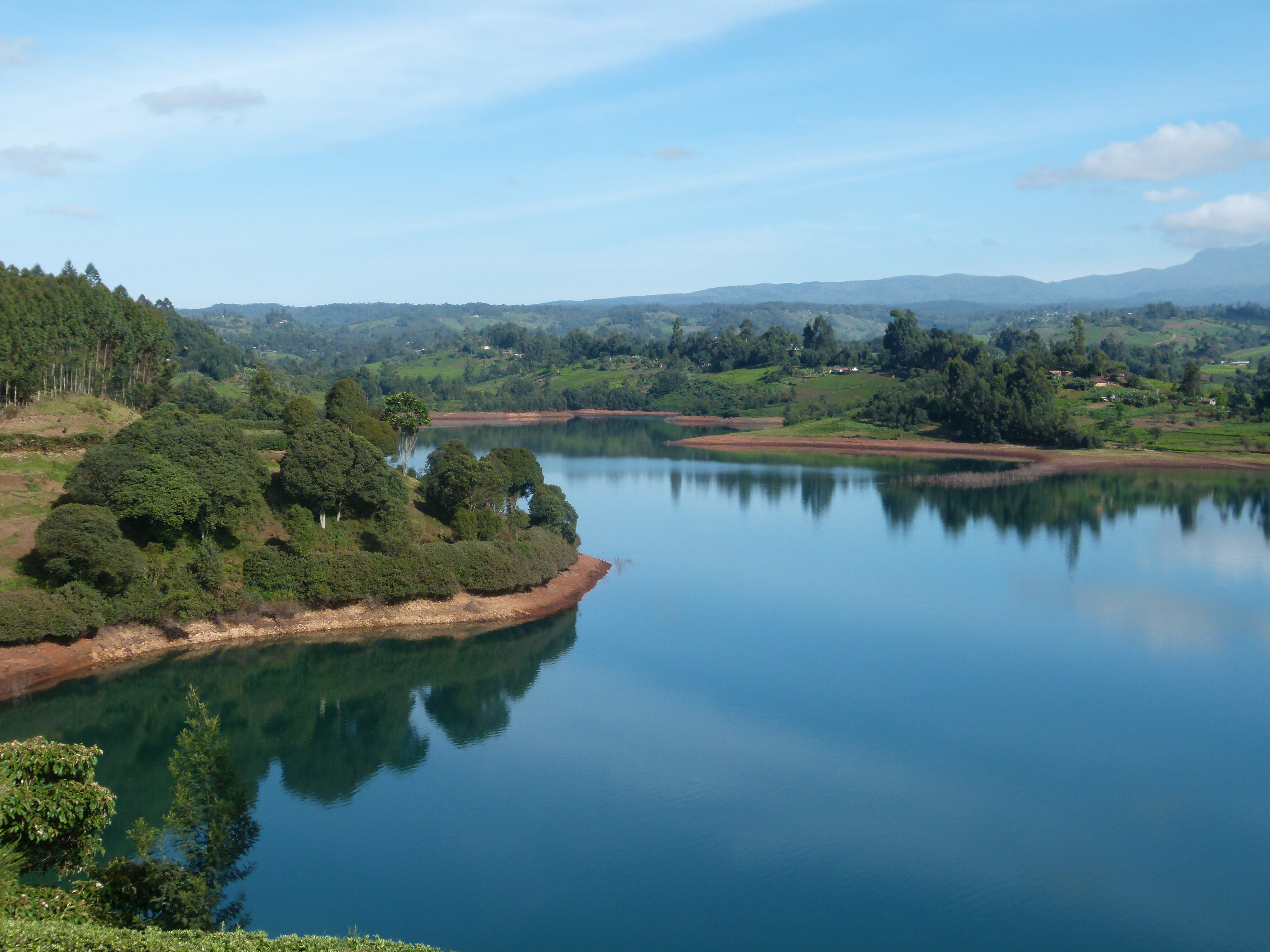 Ndakaini Dam (Thika Dam) lies about 80km north of Nairobi on the slopes of the Aberdares and provides water for most of the residents of Nairobi